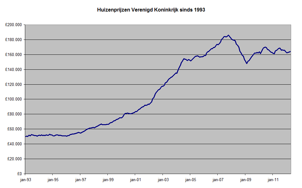 Development of house prices in the United Kingdom, in GBP. source: Nationwide, Used on Kredietcrisis